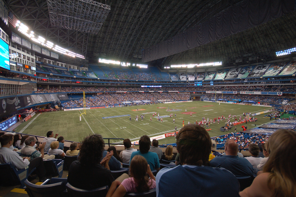 Toronto Argonauts game